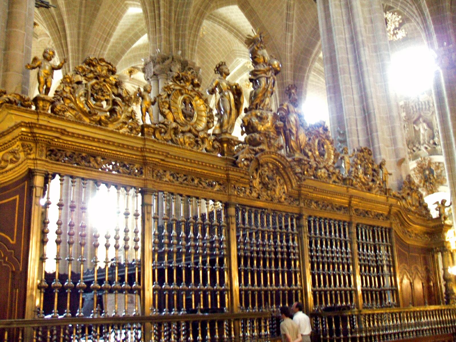 Reja del coro de la Catedral del Salvador (La Seo) de Zaragoza (Aragón, España)